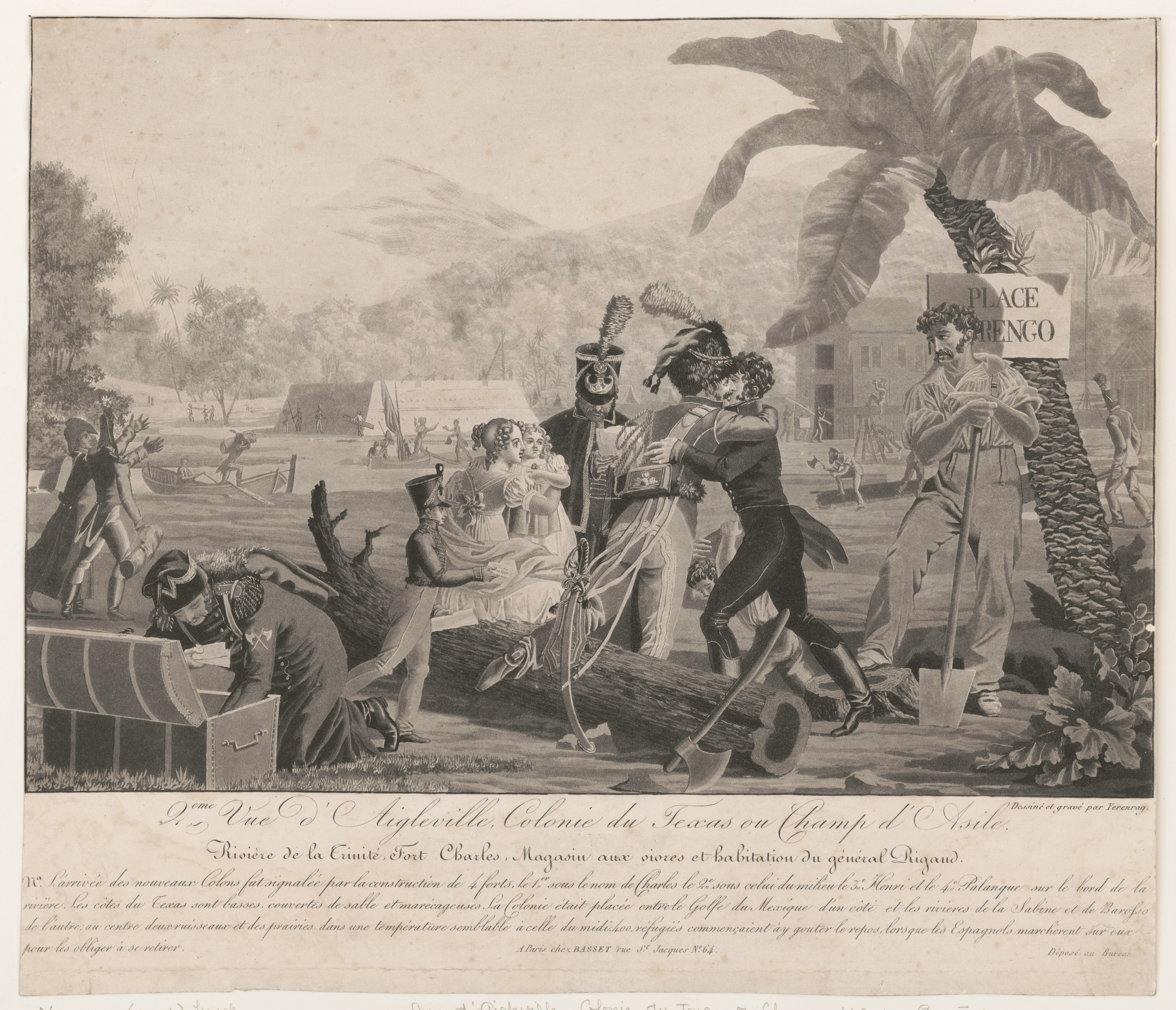 2nd view of Aigleville, colony of Texas or Champ d'Asile. Trinity River, Fort Charles, food store and General Rigaud's home